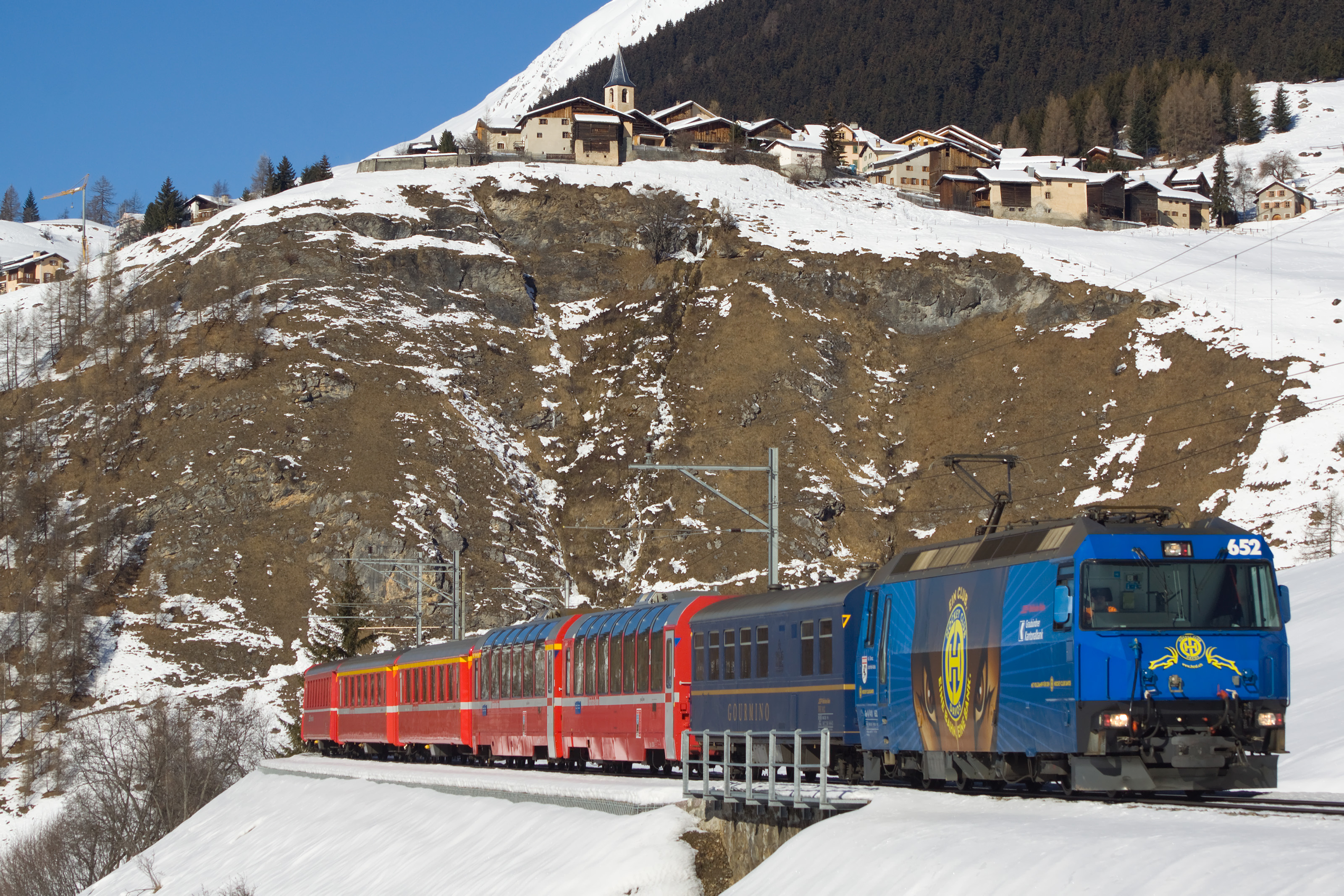 RhB Ge 4/4 III carrying advertisement for HCD is hauling a regioexpress train from St. Moritz to Chur downwards between Preda and Bergün. The village in the back is Latsch.